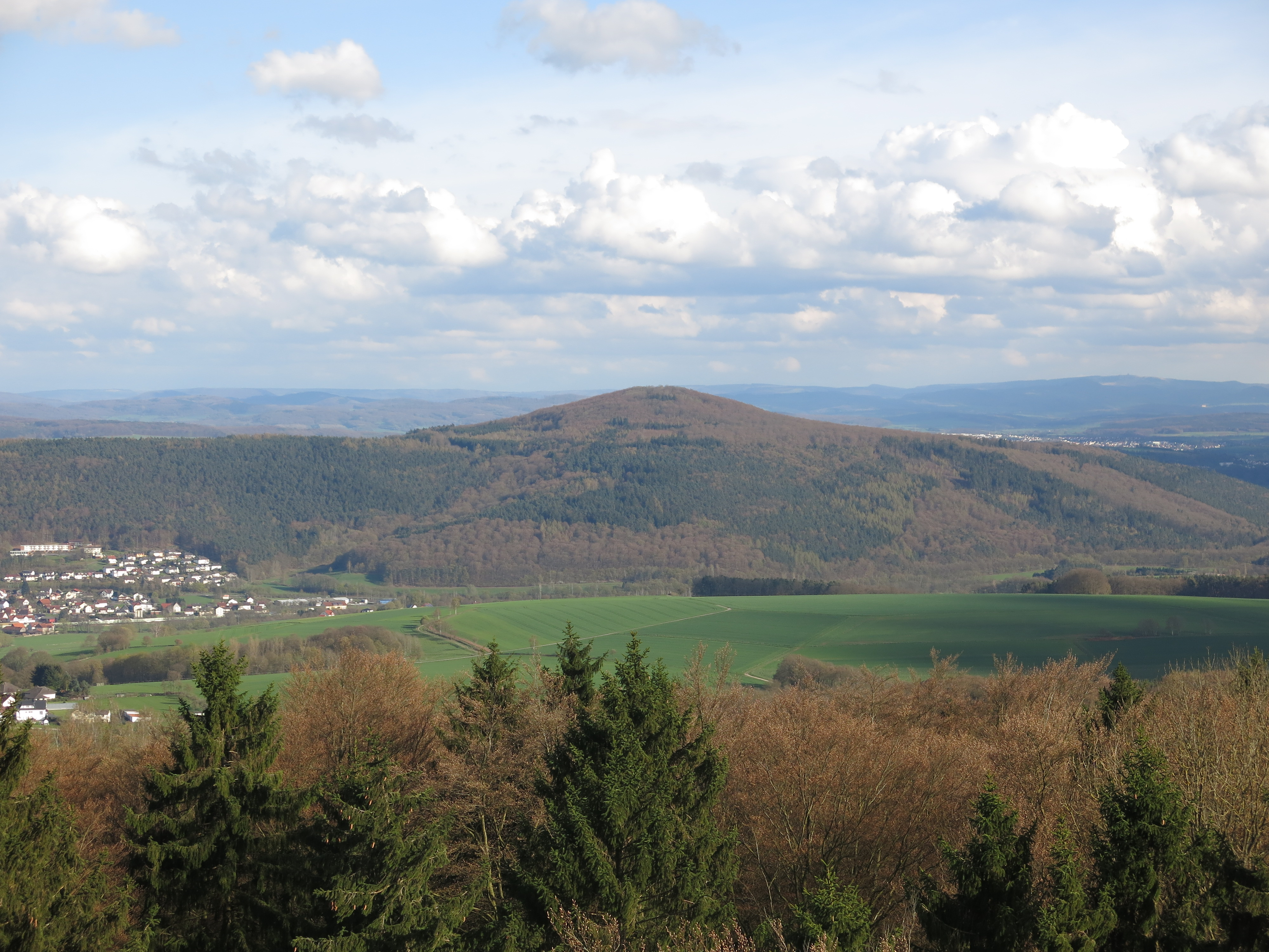 View from the look-out-tower on to southest and the Rhön Mountains with the Stoppelsberg. Bildmitte.